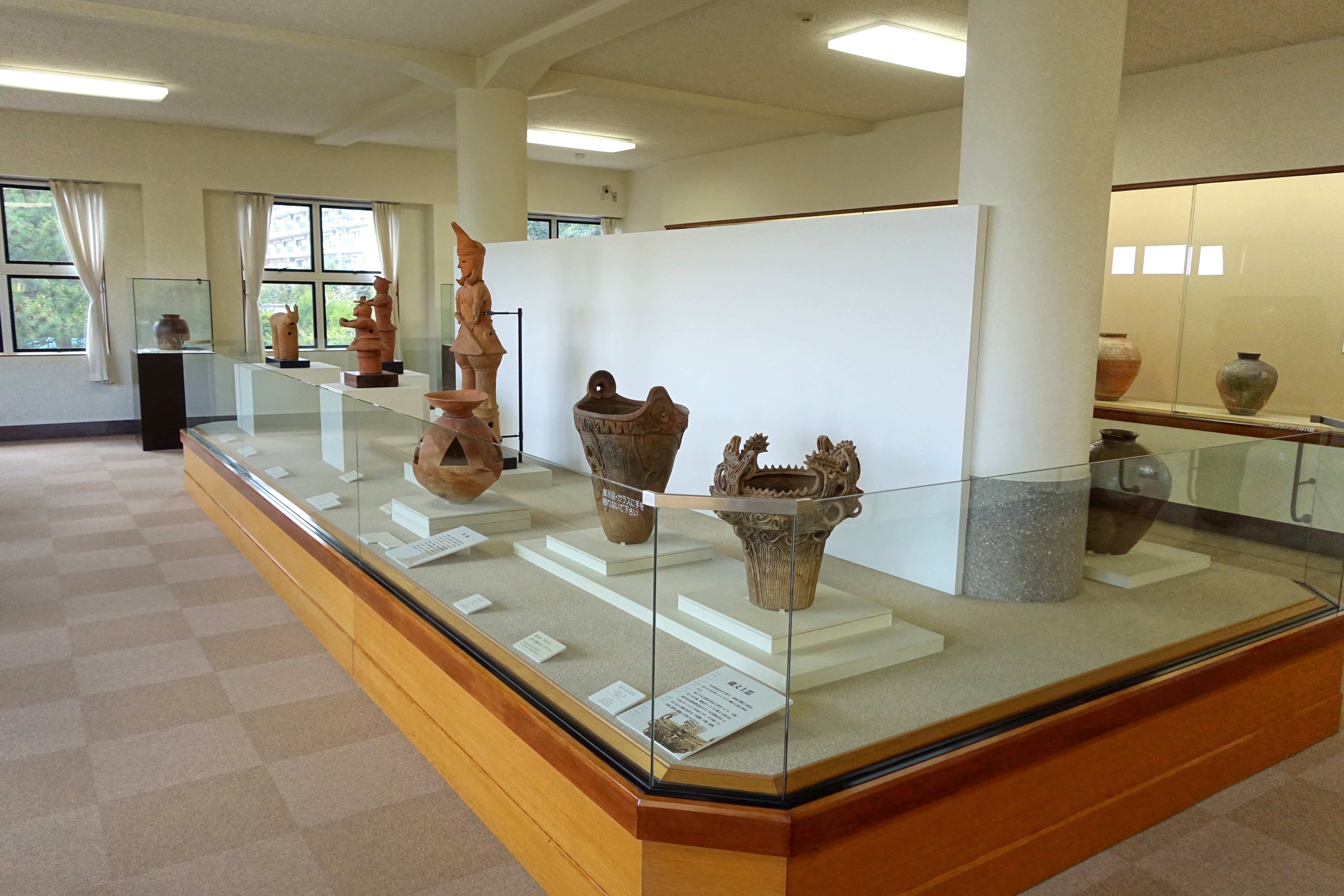 Interior view - Hakone Museum of Art - Hakone, Kanagawa, Japan.